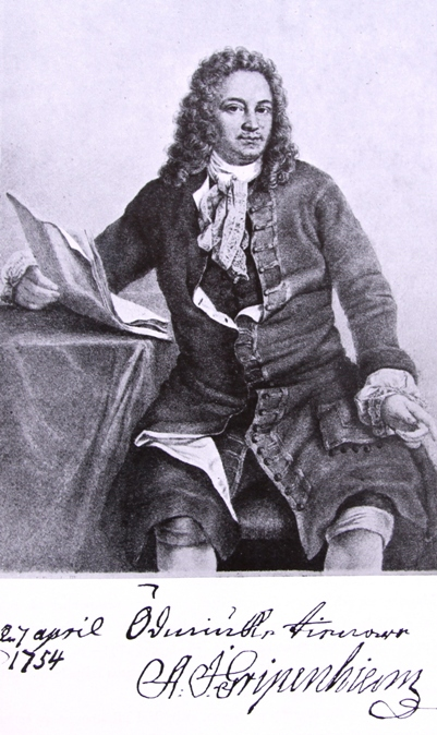 The Swedish major-general and county governor Axel Johan Gripenhielm (1686-1755), April 27 1754